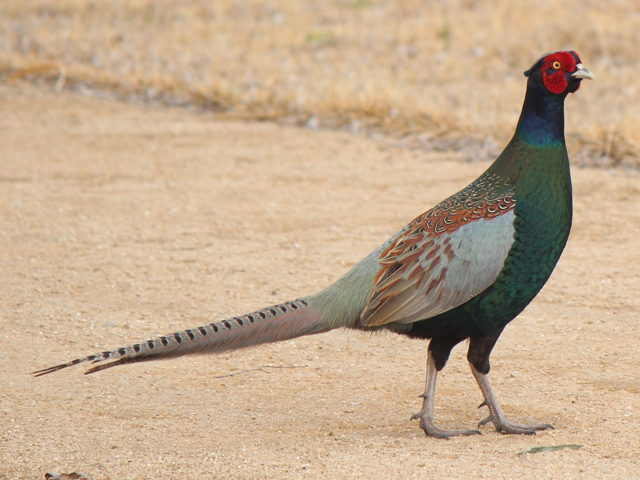 Phasianus versicolor (Green Pheasant, Phasianus colchicus versicolor), male walking in Japan